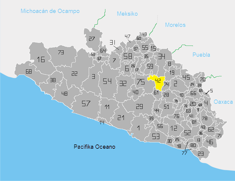 locator map